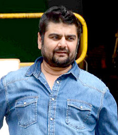 Deven Bhojani on the sets of ‘Commando 2’